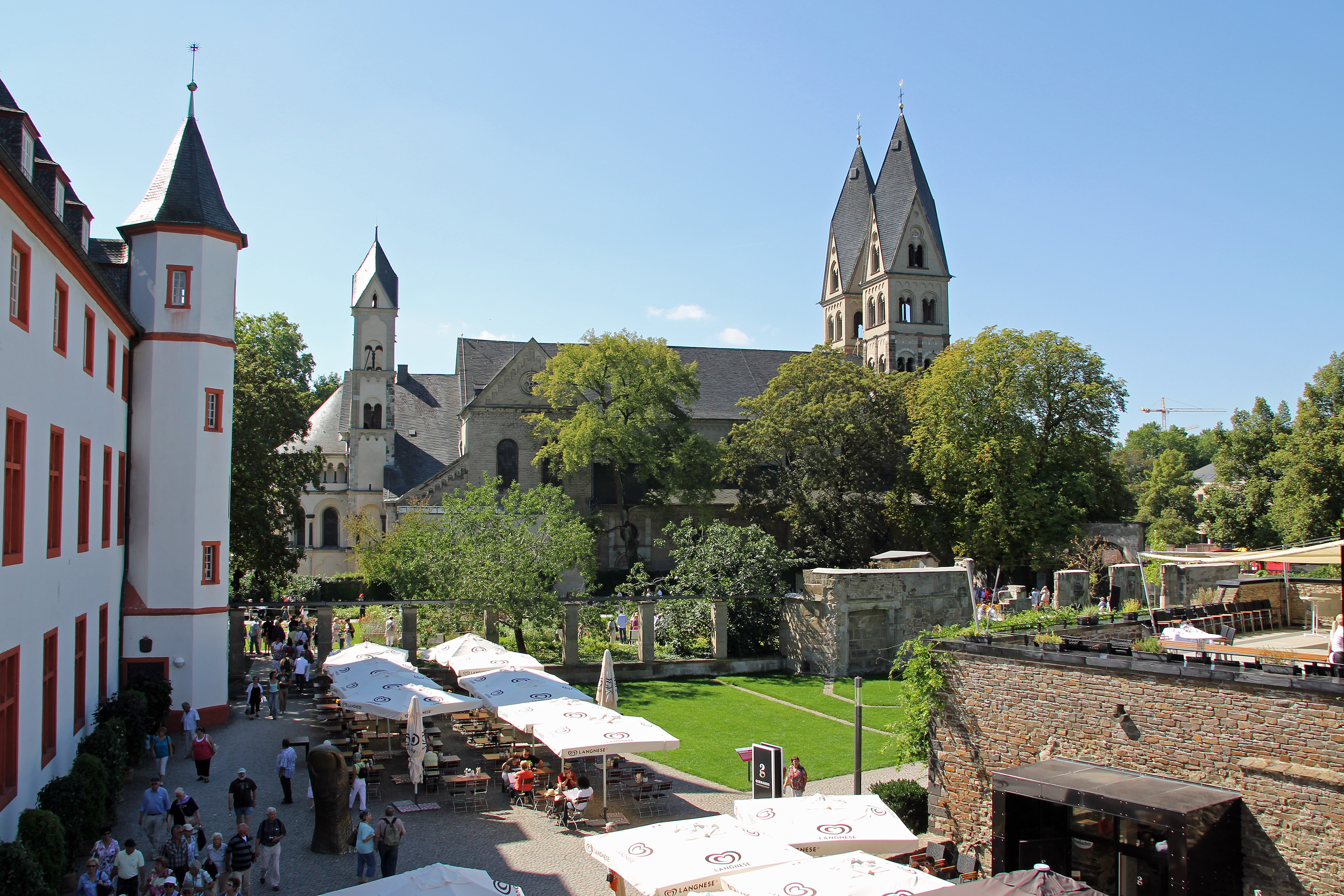 Federal Horticultural Show 2011 in Koblenz - Blumenhof at Deutsches Eck